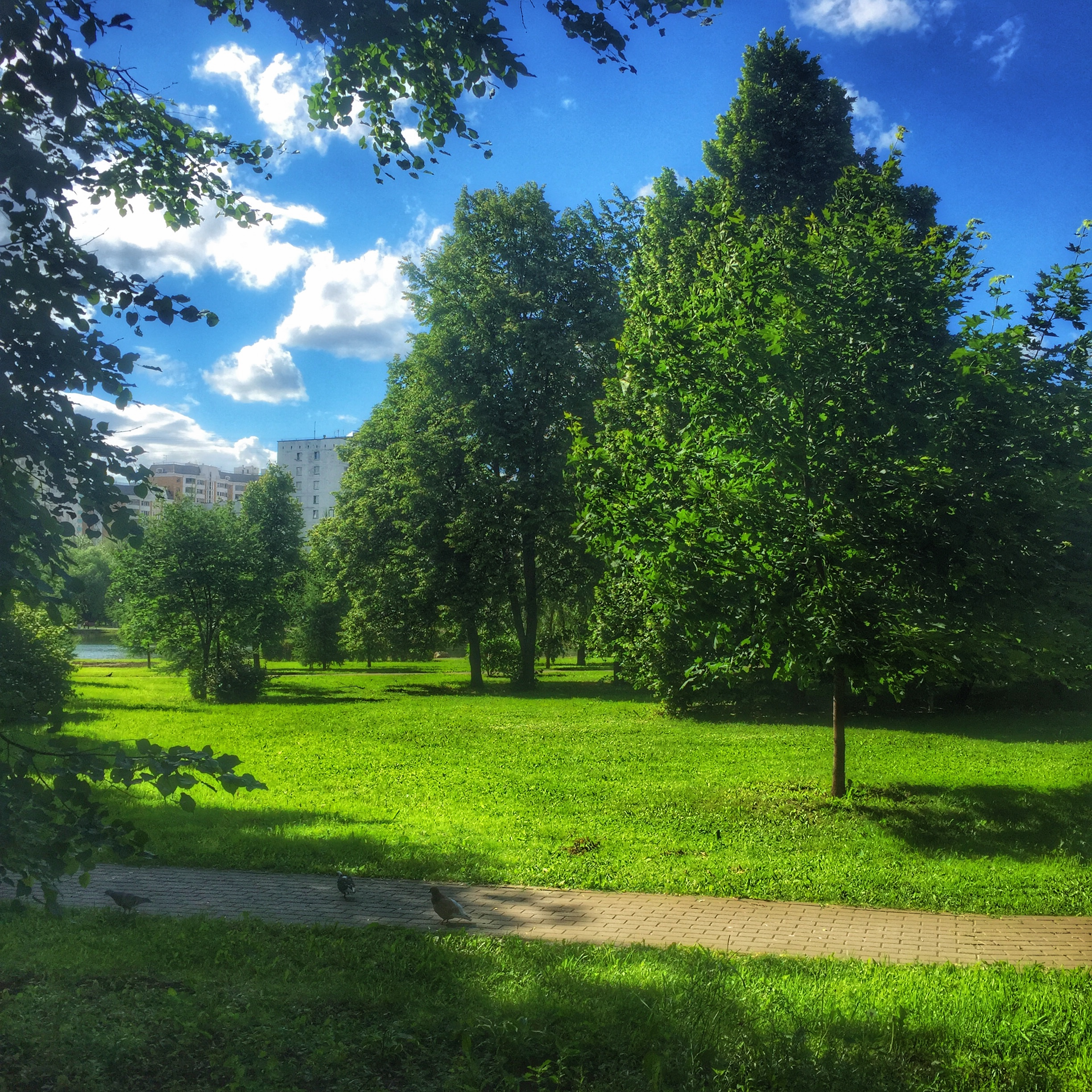 Dmitrovskiy - park in the north of Moscow.